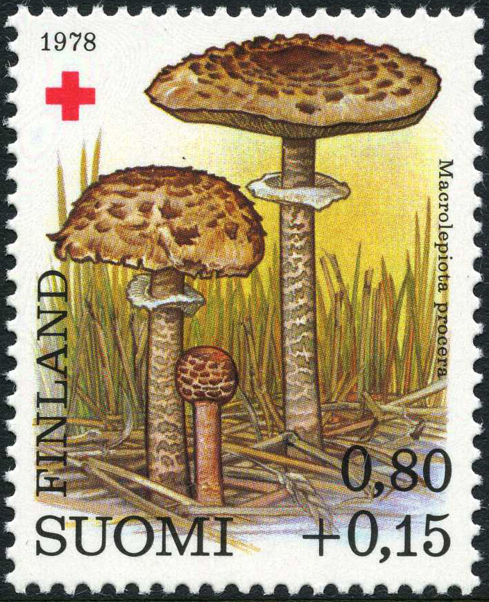 Postage stamp depicting Macrolepiota procera mushrooms in Finland